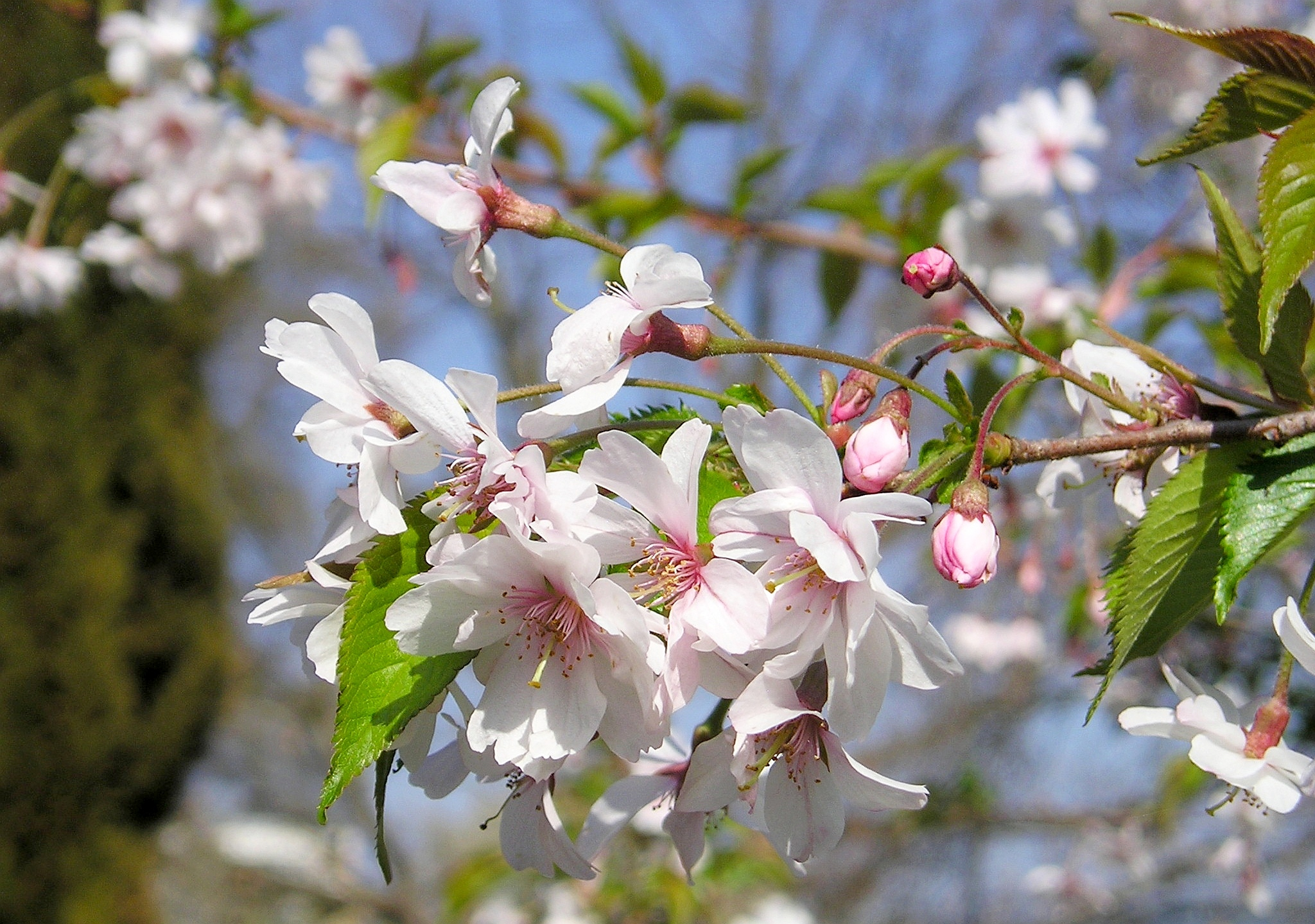 Higan-Kirsche (Prunus subhirtella) Botanischer Garten TU Dresden, April 2009 Creative Commons Licence BY 2.0 Quellenangabe / Credit: Photo by Maja Dumat